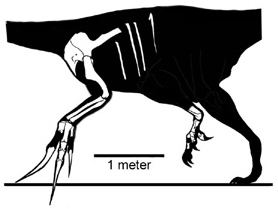 Skeletal showing the known material of Therizinosaurus cheloniformes.